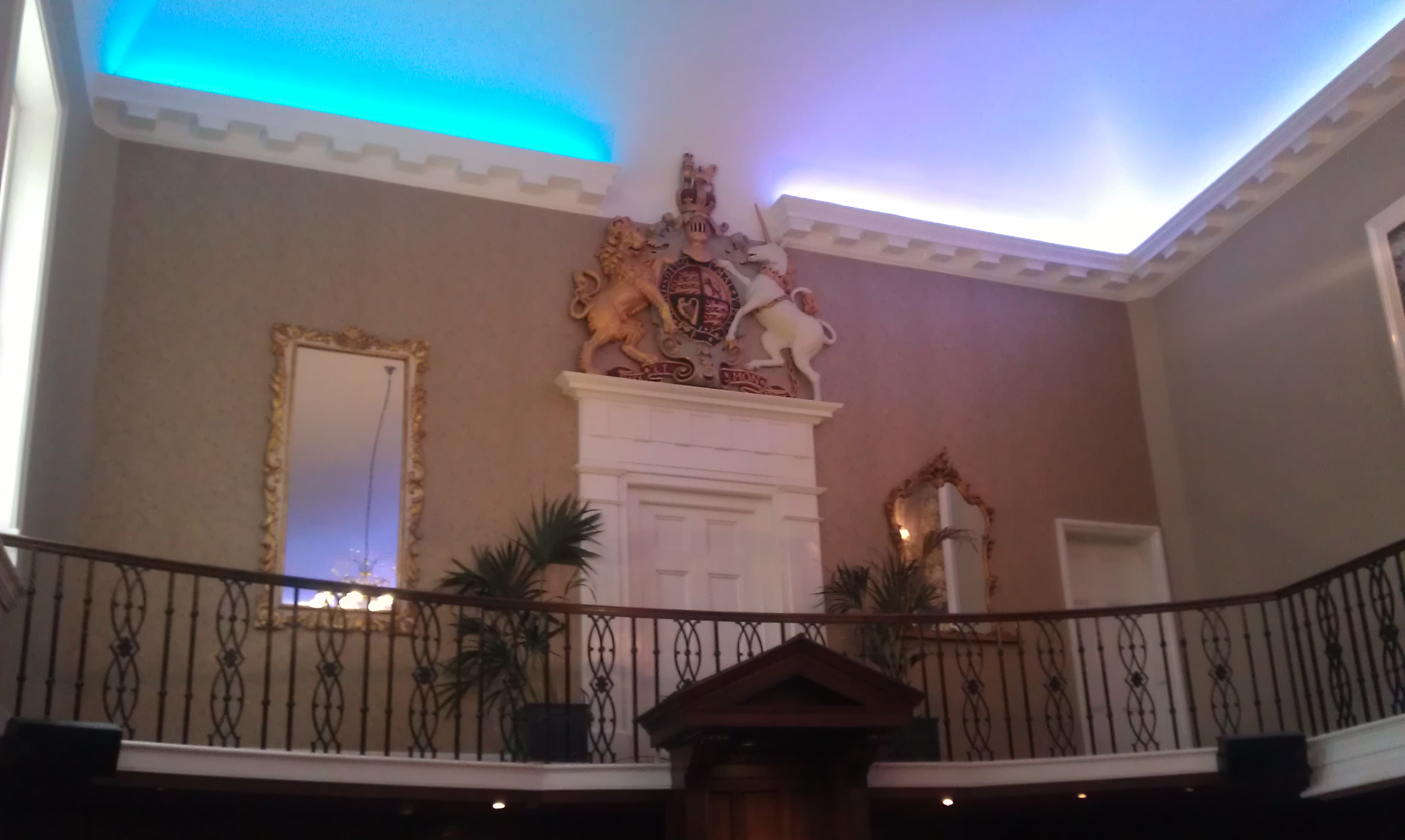 Interior of The Establishment, Coventry, England